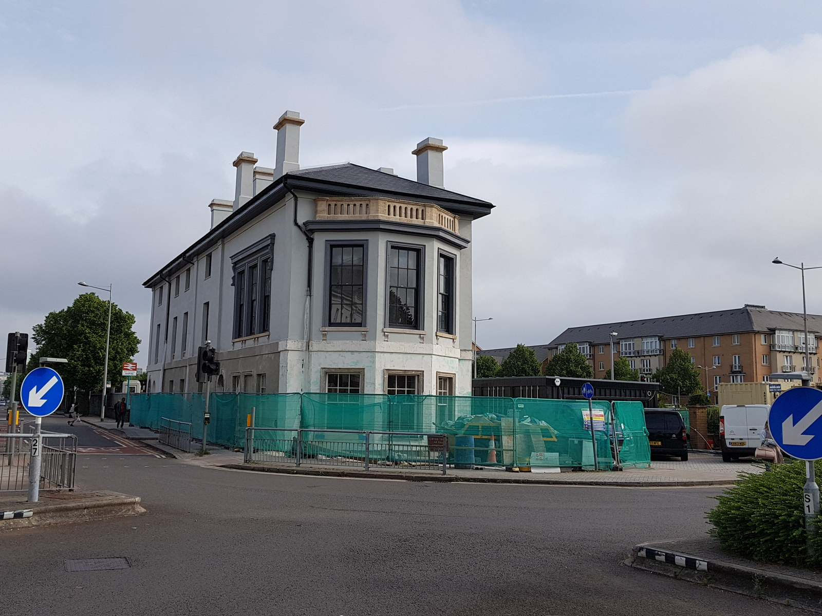 Cardiff Bay Railway Station